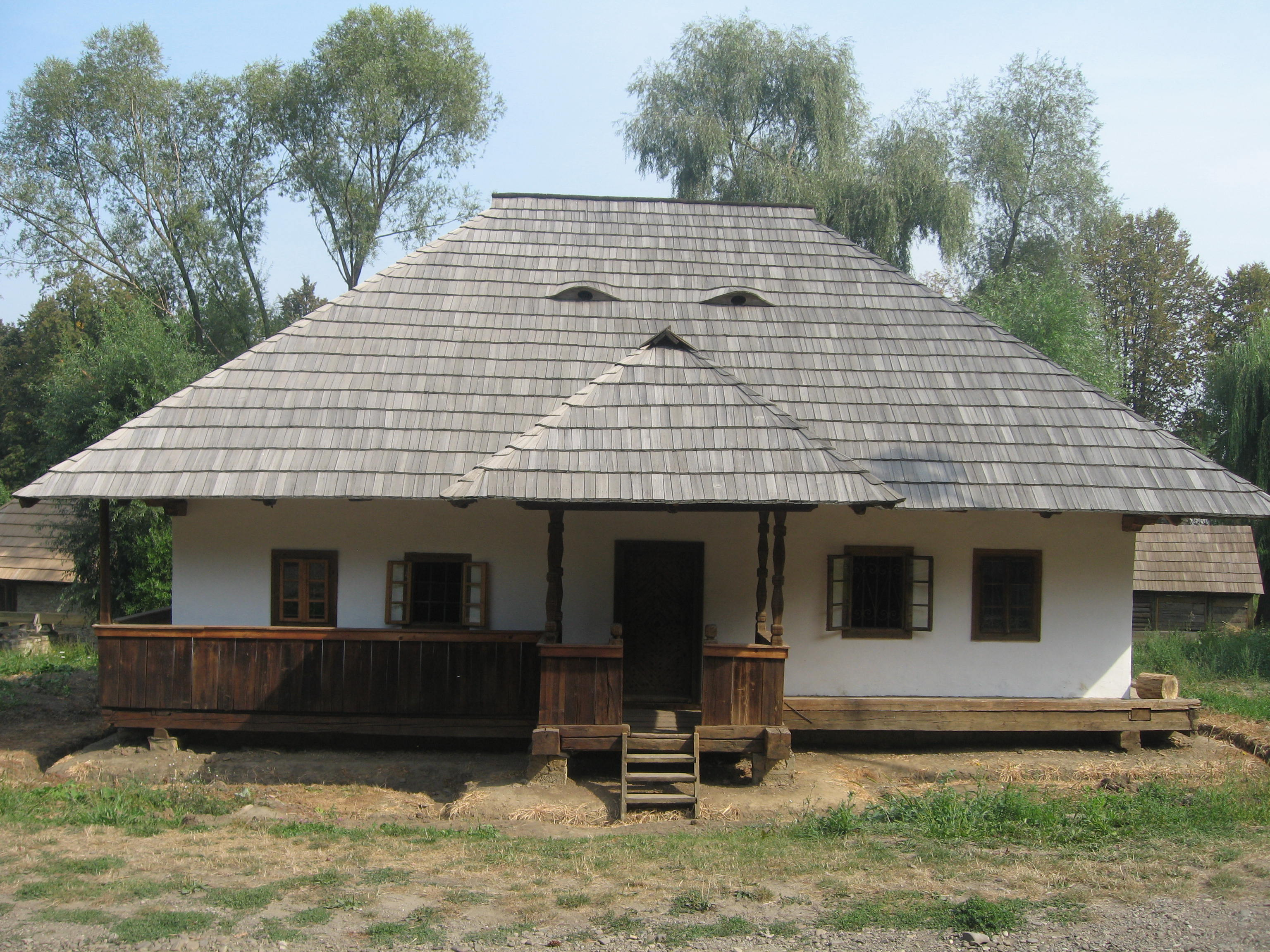 Bukovina Village Museum - The Câmpulung Moldovenesc Household (Nemţan House), Câmpulung Moldovenesc ethnographic area.